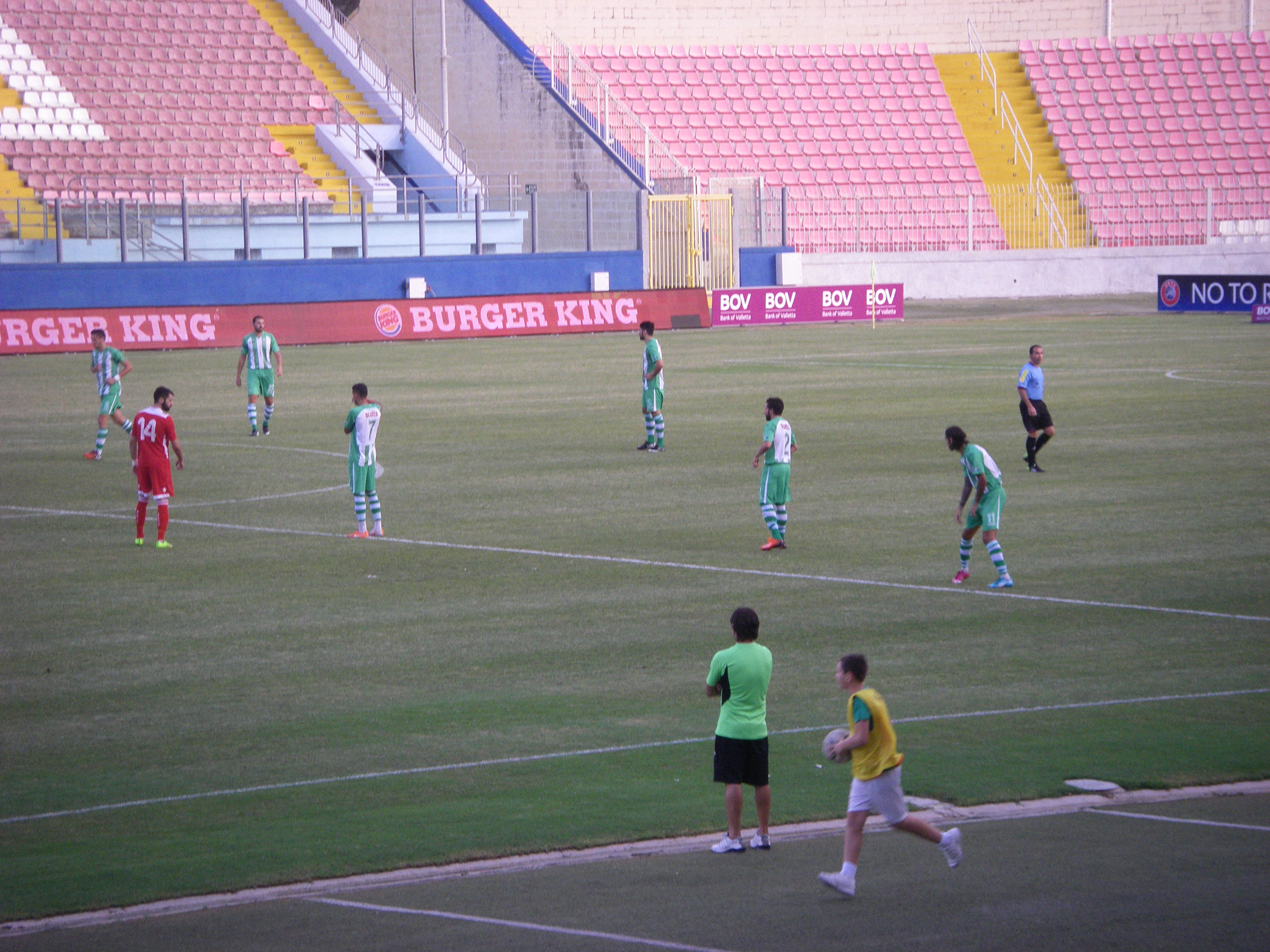 Players of Floriana FC (green and white) are waiting for the kick-off against Balzan F.C. on October 3, 2014